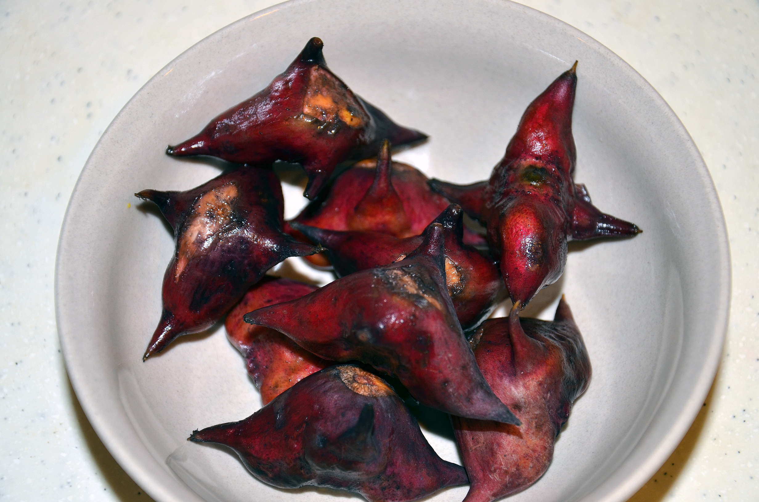 Trapa natans seeds